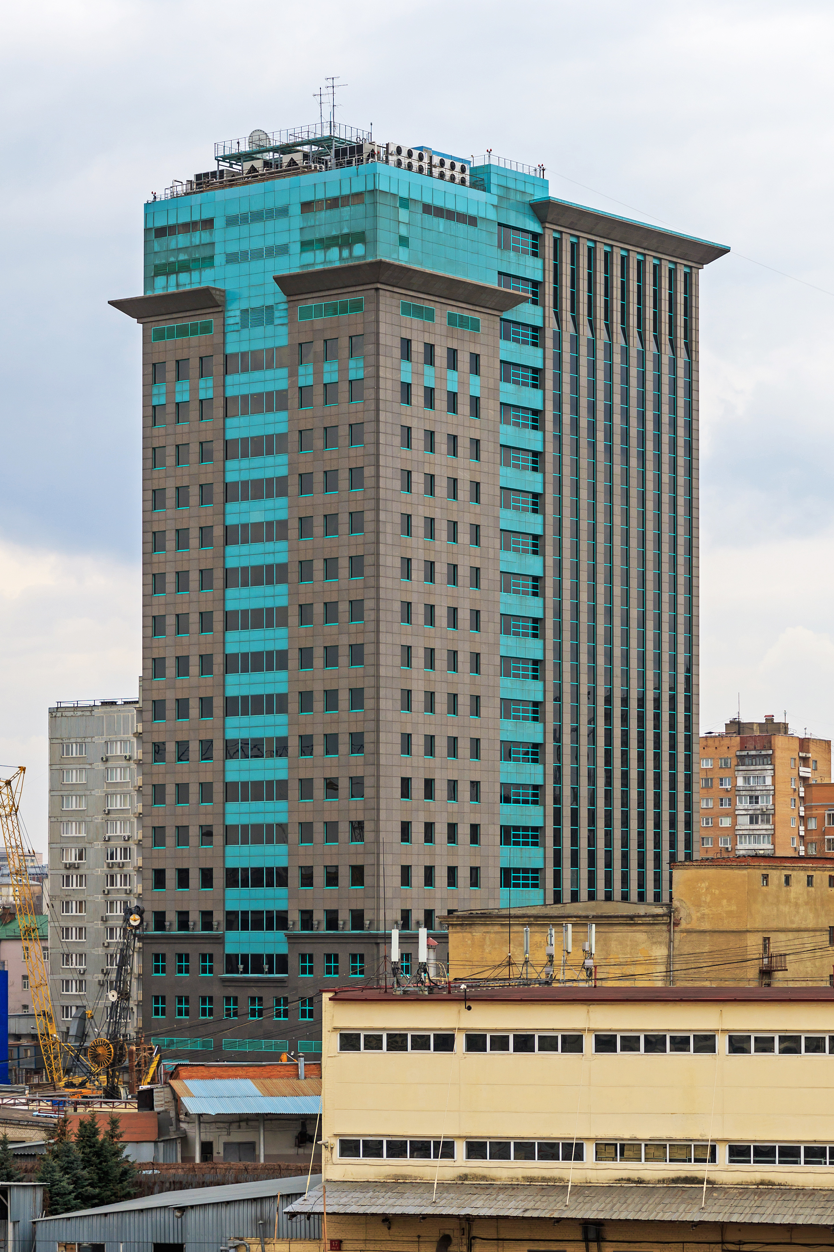 Former Yukos building at Dubininskaya Street in Moscow